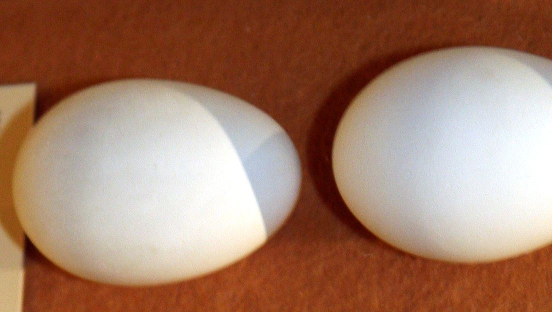 Location taken: Delaware Museum of Natural History, Wilmington, Delaware.. Names: Mycteria americana Linnaeus, 1758, American jabiru, American Wood Ibis, American wood stork, American Wood-Stork, Amerika mikterio, amerikaniibishaikara, Amerikanischer Nimmersatt, Amerikansk ibisstork, Amerikansk Skovstork, Amerikastork, amerikatokikou, Amerikinis žabiras, Bocian lesný, Cabeça seca, cabeça-de-pedra, Cabeça-seca, Cabeza-de-hueso, Cayama, Cicogna americana, Cig, Cigogne américaine, Cigogne d'Amérique, Cigüeña, Cigüeña americana, Cigueña Cabeza Pelada, Cigüeña de cabeza pelada, Cigueñón, Coco, Cocó Cigueña Americana, di bosco, dlawigad amerykanski, dławigad amerykański, erdei gólya, Faisán, flinthead, Gabán Huesito, galletán, Gannet, gourdhead, Hammerhead, ironhead, jabirú, jabiru-moleque, Kaalkopooievaar, Metsähaikara, muda-toonekurg, Mycteria americana, myktéria holokrká, nesyt americký, Nesyt lesní, padre, Passarão, preacher, Spanish buzzard, Tàntal americà, Tantal rak bwa, Tantale d'Amérique, Tantale d'Amérique, Tantalo americano, Tantalus loculator, tuiuiú, Tujuju kangy, Tuyuyú, Waldstorch, wood ibis